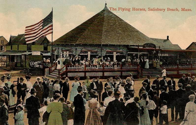 The Flying Horses, Salisbury Beach, Massachusetts. Installed by Charles I. D. Looff at Coney Island from 1890-1905, the hand-carved carousel operated here from 1914-1976. It was moved to Seaport Village, San Diego, California in 1980.